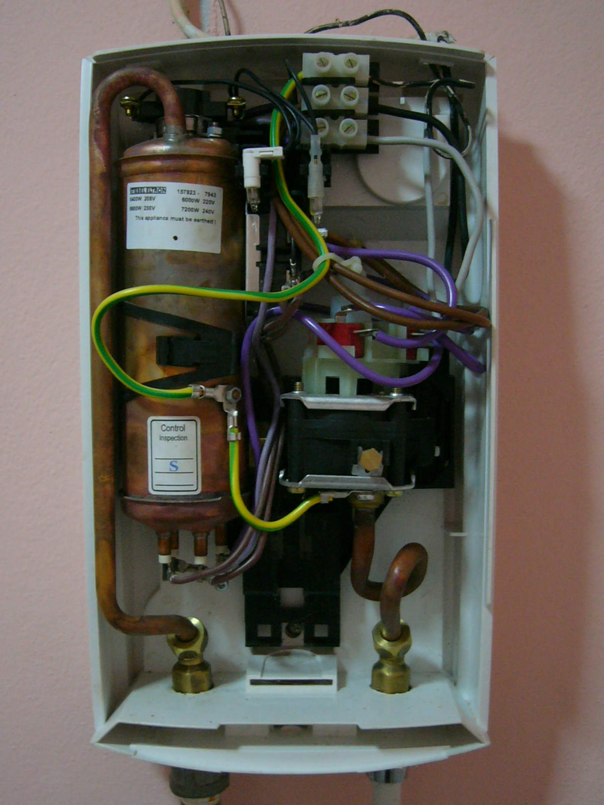 Stiebel Eltron Elektric bathroom continuous-flow water heater, electric single-phase alternating current instantaneous water heater with 7.2 kW Power, running on 240 Volts.